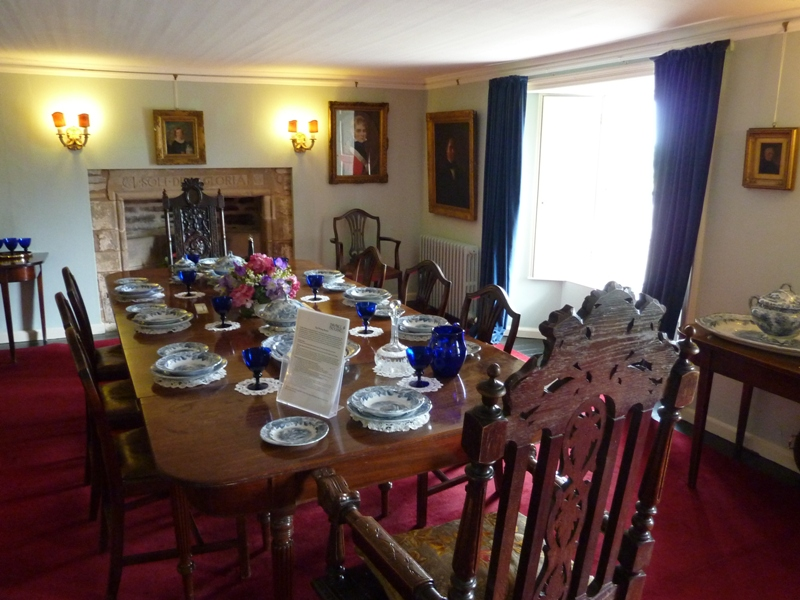 Skaill House, Mainland, Orkney, Scotland. Dining room.